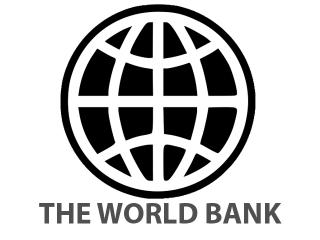 The World Bank